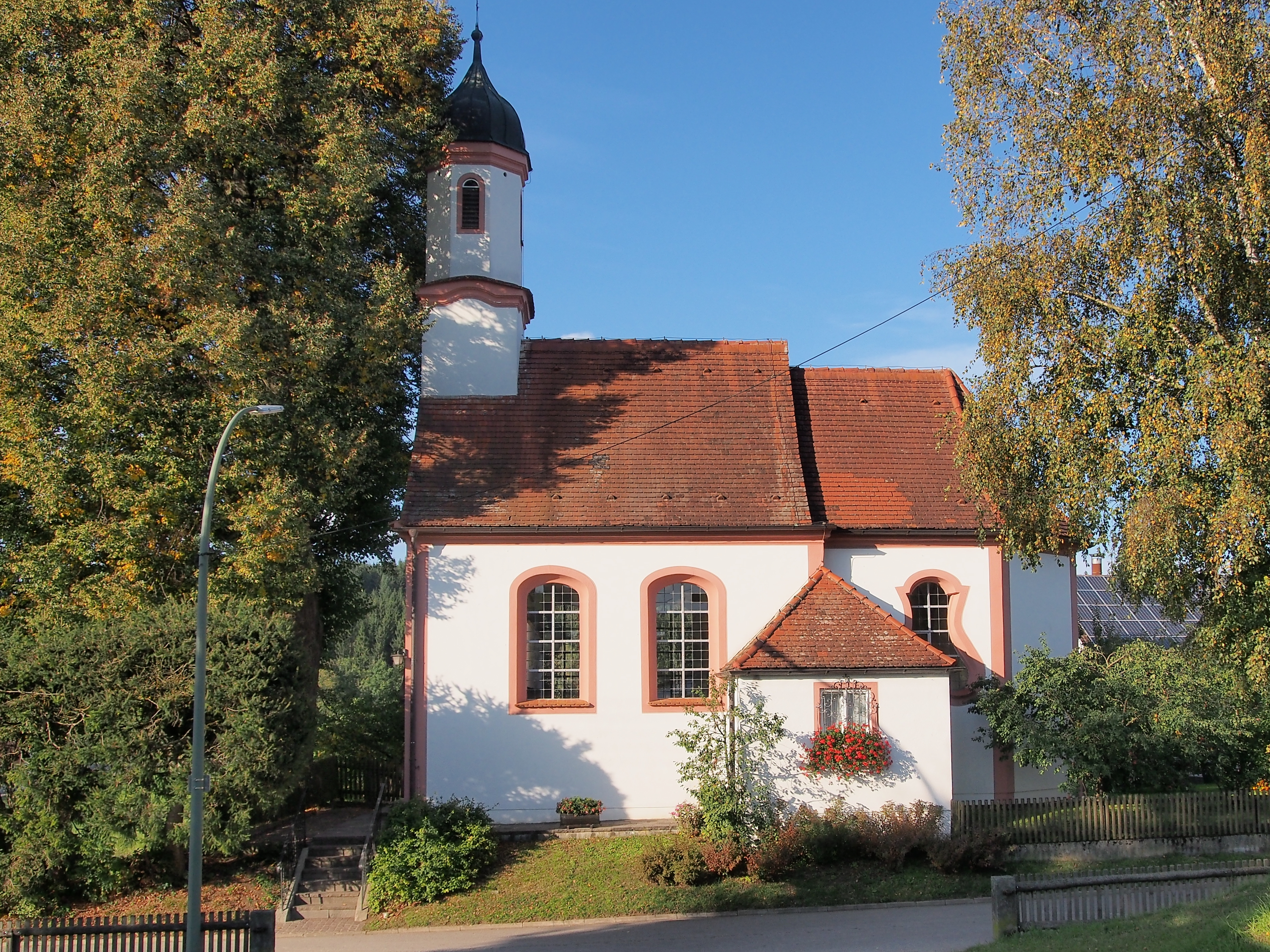 This is a photograph of an architectural monument.